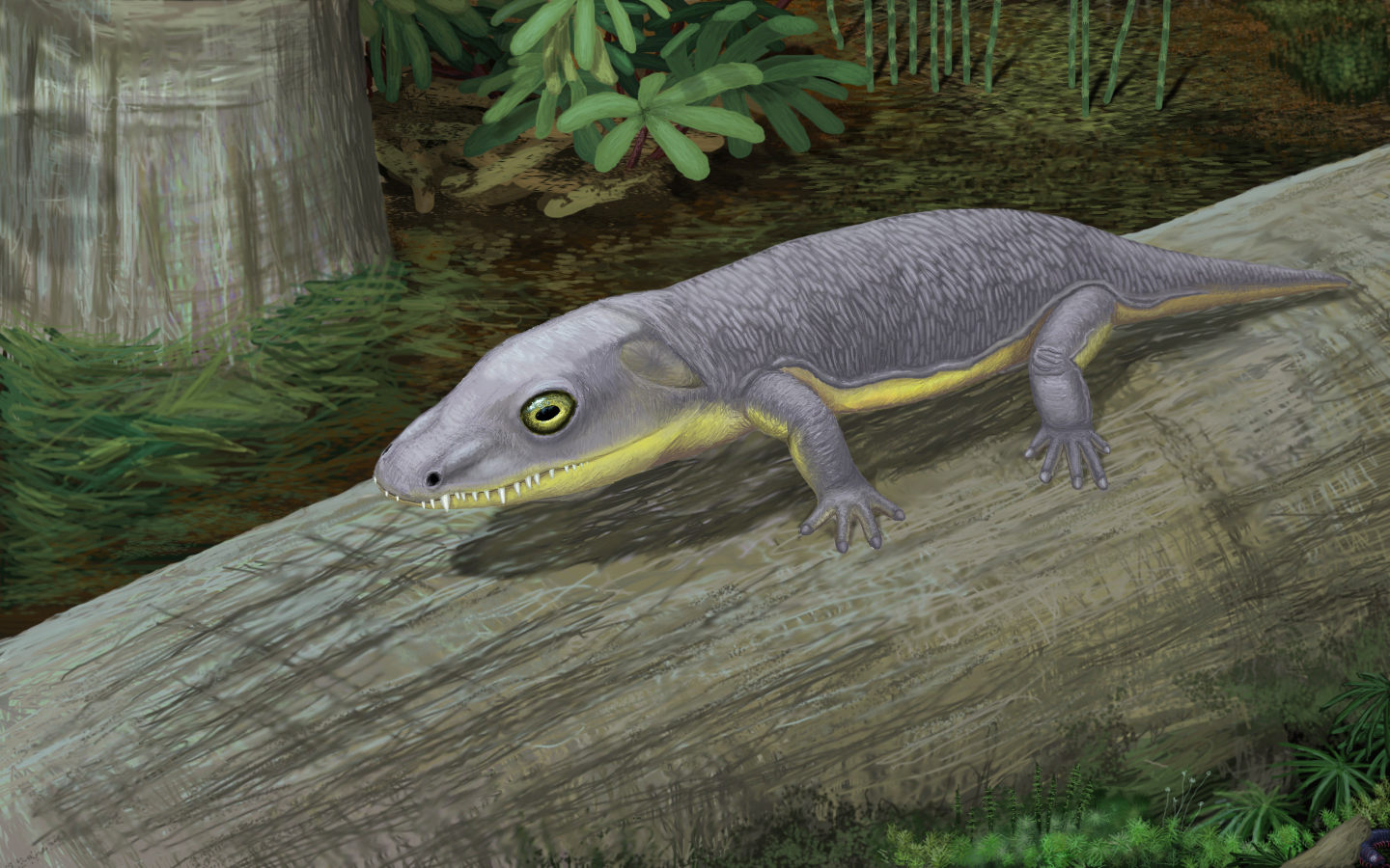 Life restoration of Phonerpeton pricei. Based on figure 1 of "A new trematopsid amphibian (Temnospondyli: Dissorophoidea) from the Lower Permian of Texas" by David W. Dilkes (Journal of Vertebrate Paleontology 10 (2): 222-243).